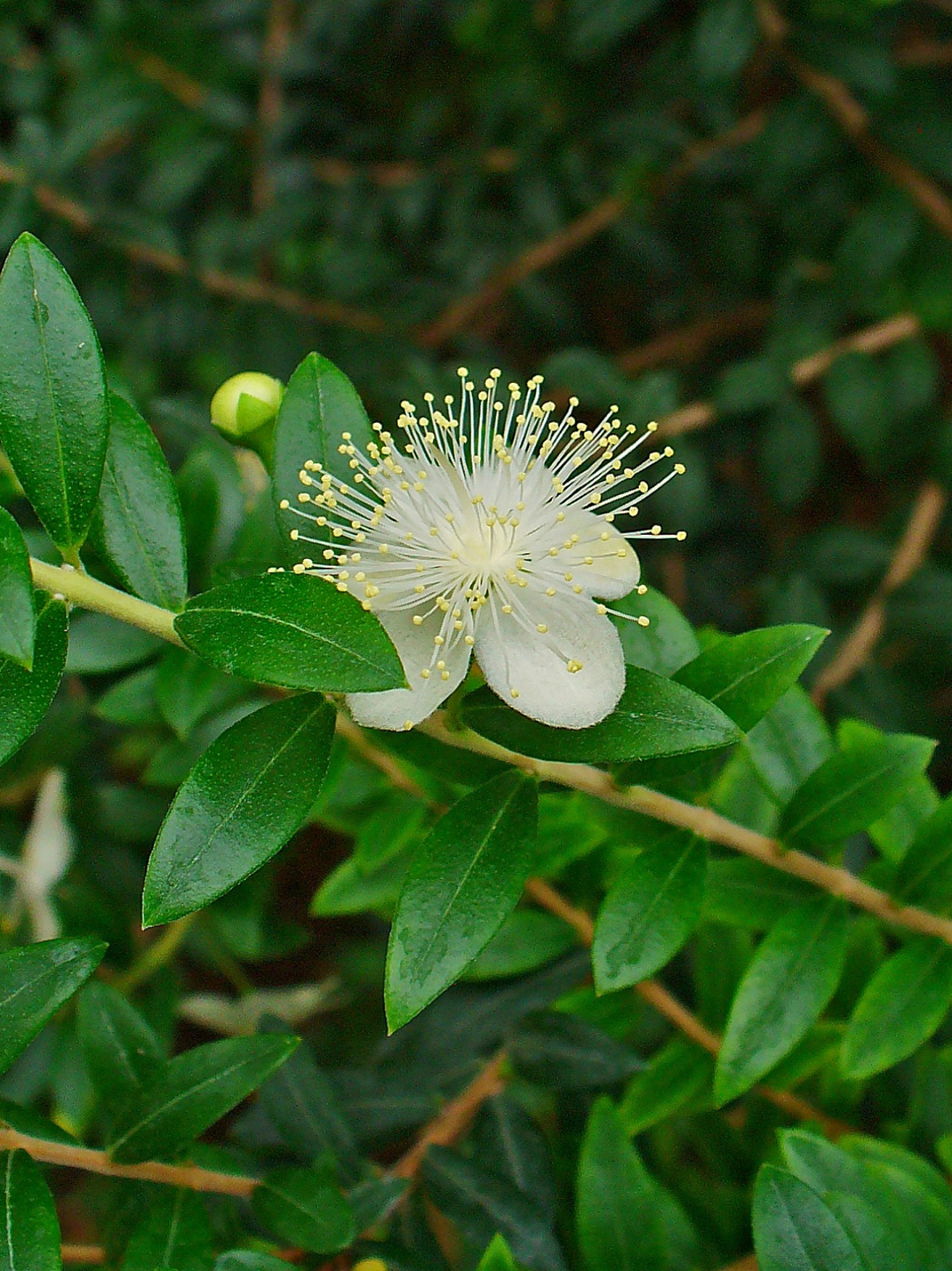 Myrtus communis, Myrtaceae, Common Myrtle, European Myrtle, flower.